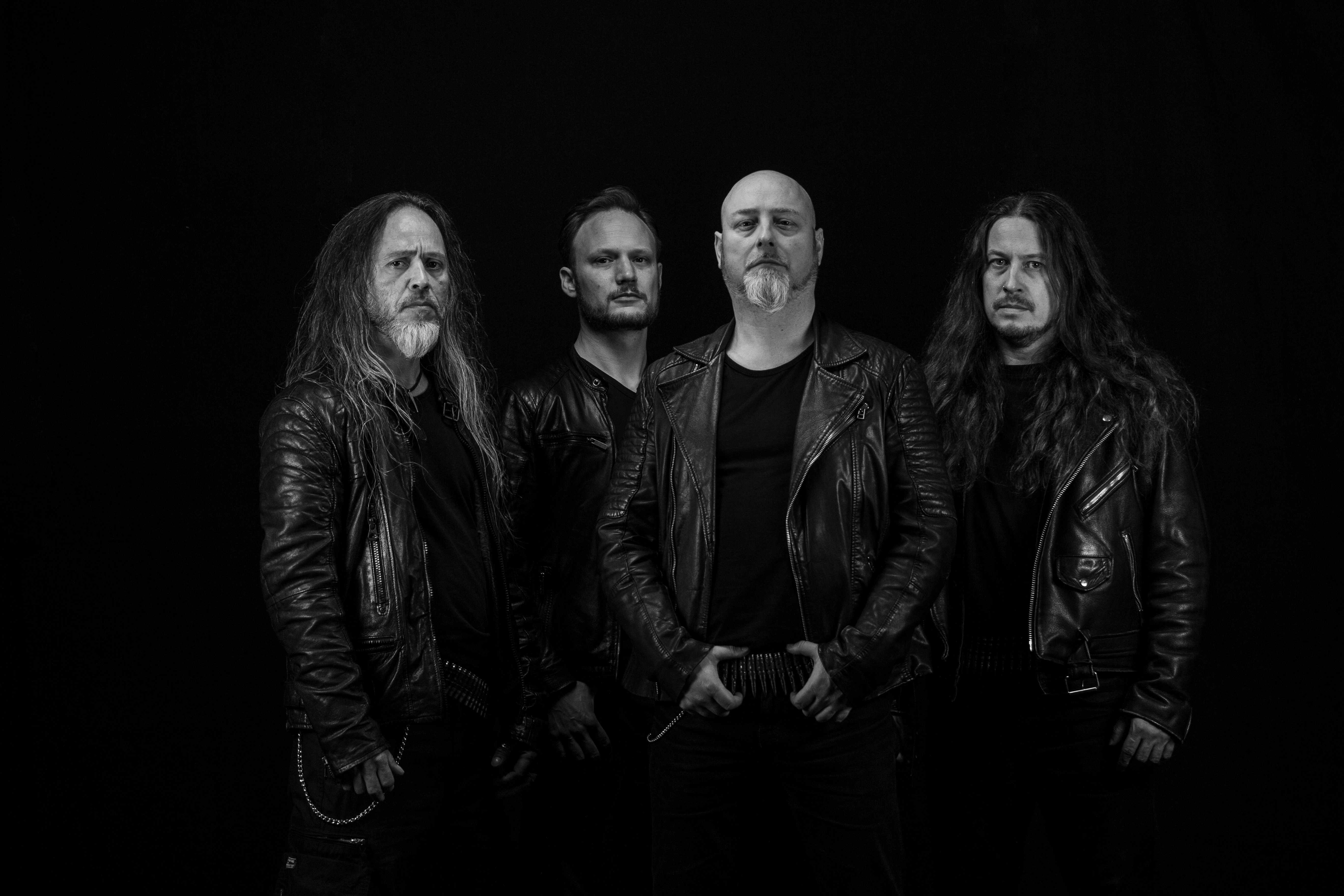 band photo by Gerard van Roekel, commissioned by and paid for by Thanatos (official promo shoot)